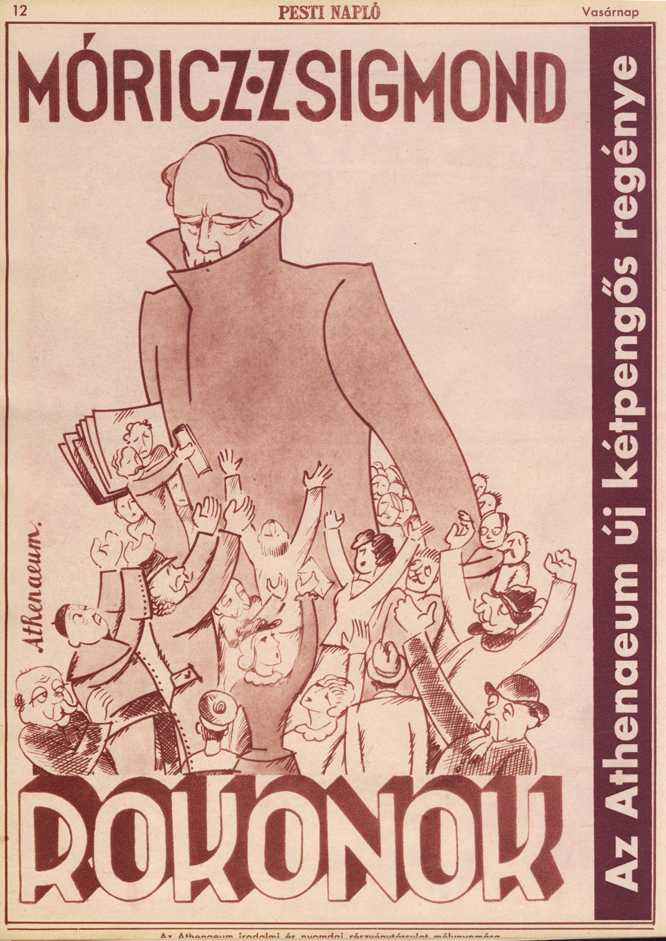 Advertisement for titled Rokonok novel of Zsigmond Móricz